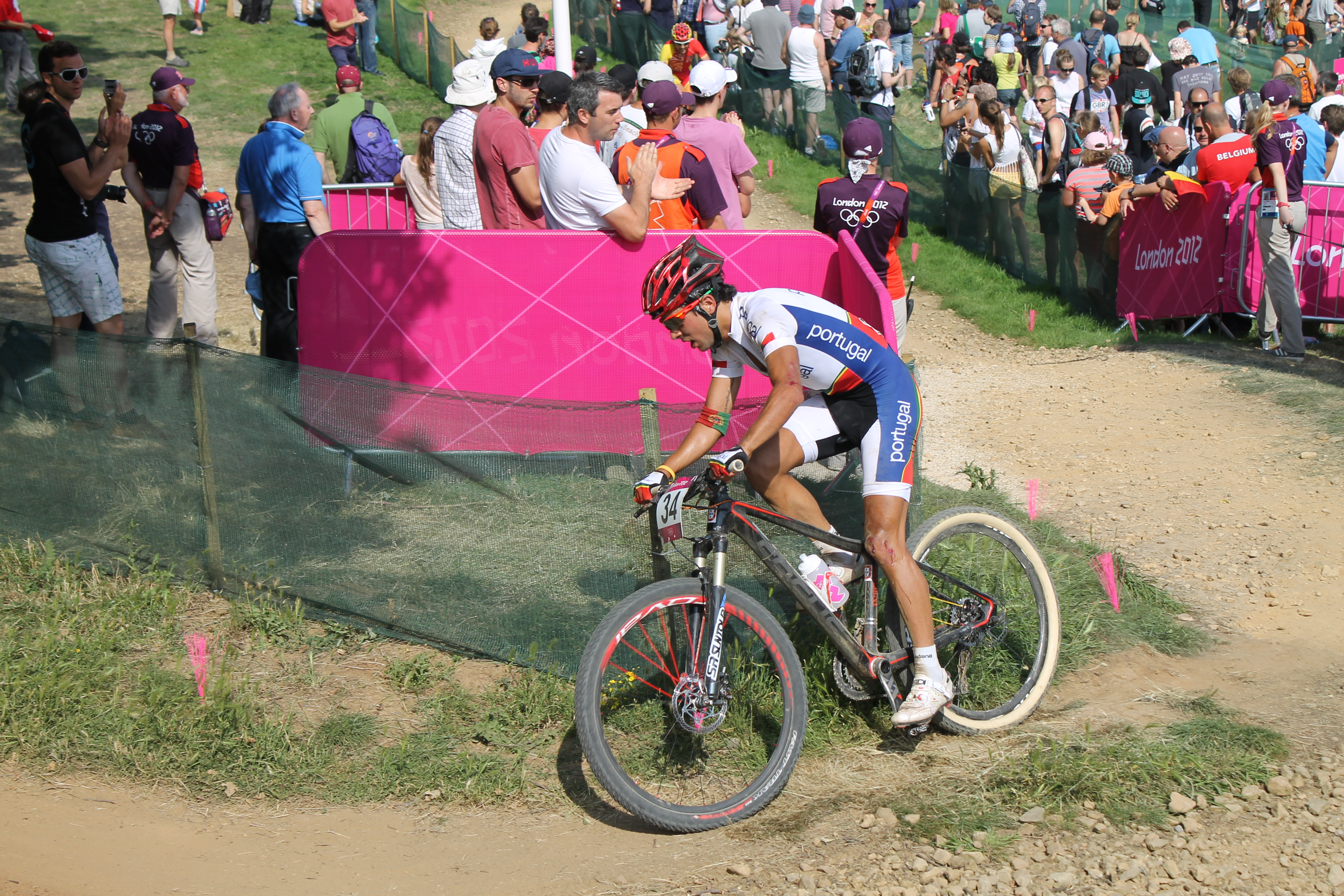 Cycling at the 2012 Summer Olympics – Men's cross-country David Rosa (34) (POR) IMG_4314